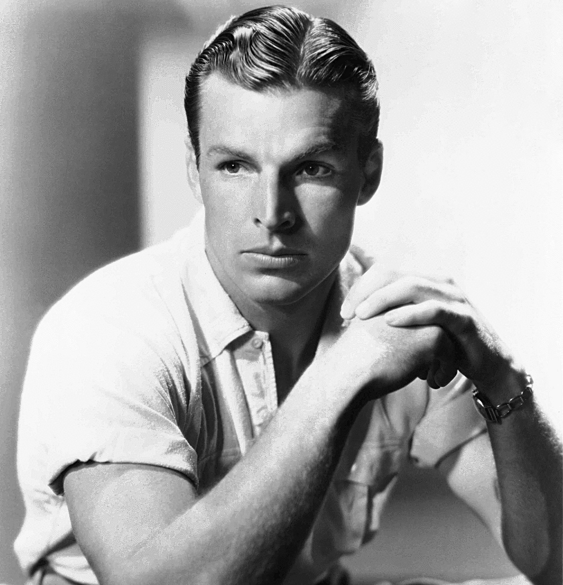 Publicity photo of Buster Crabbe